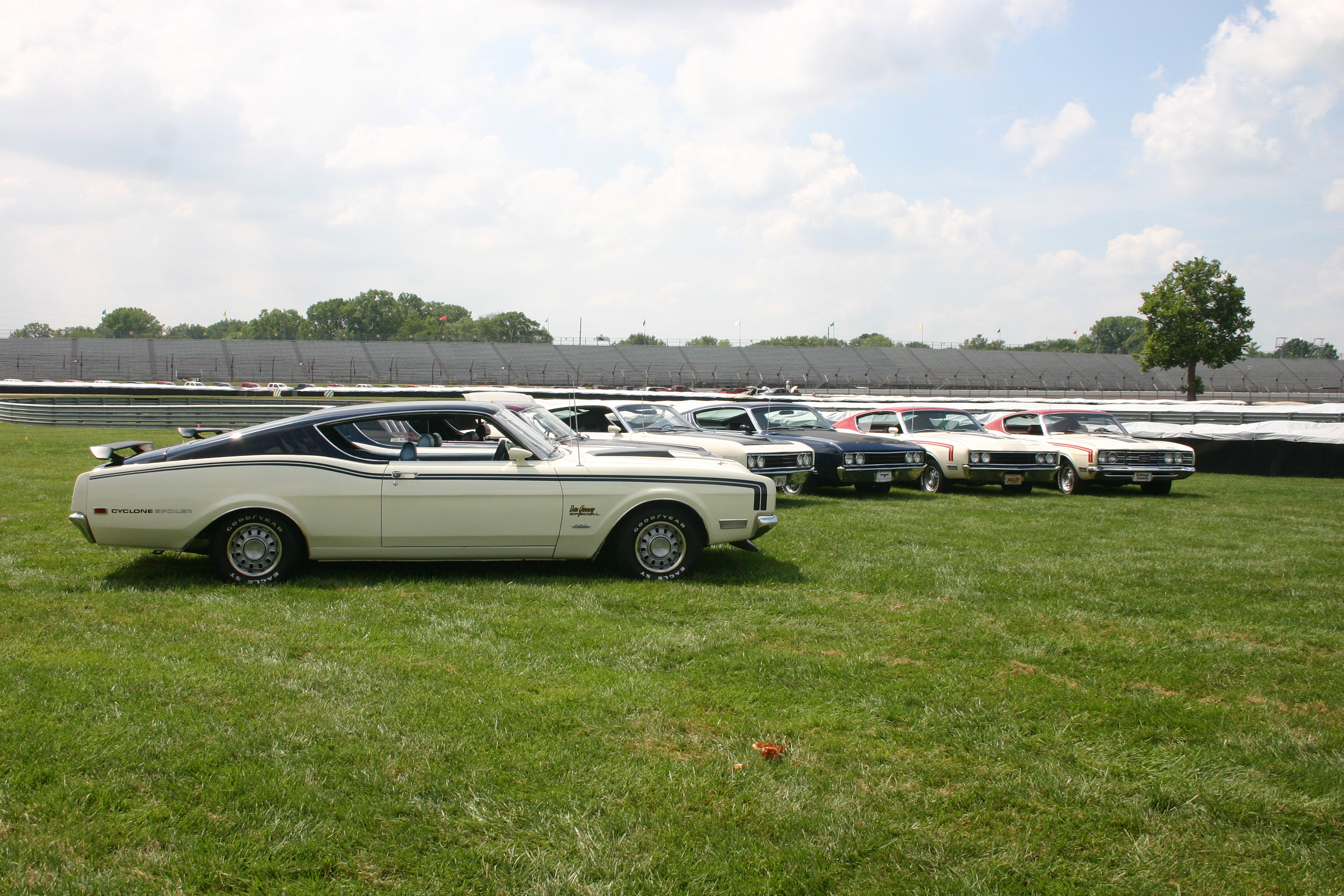 Cyclone Spoiler, Spoiler II, and Talladegas